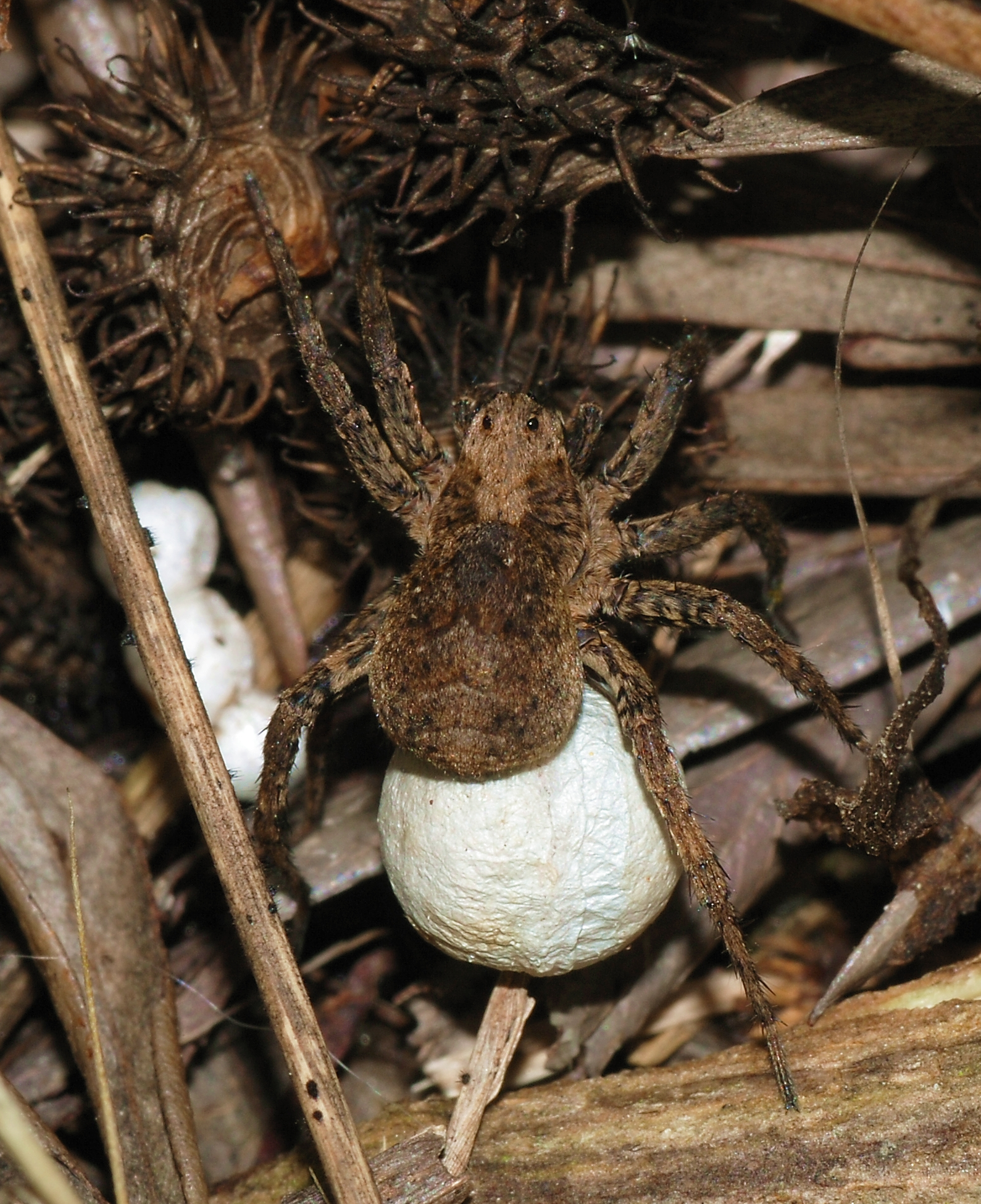 Wolf spider with a sac of eggs